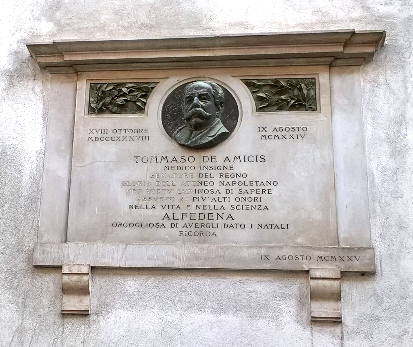 Alfedena, Via Giuseppe de Amicis, 6; Plaque of Tommaso De Amicis